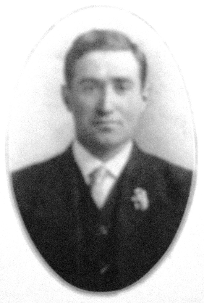 Clifton N. McArthur